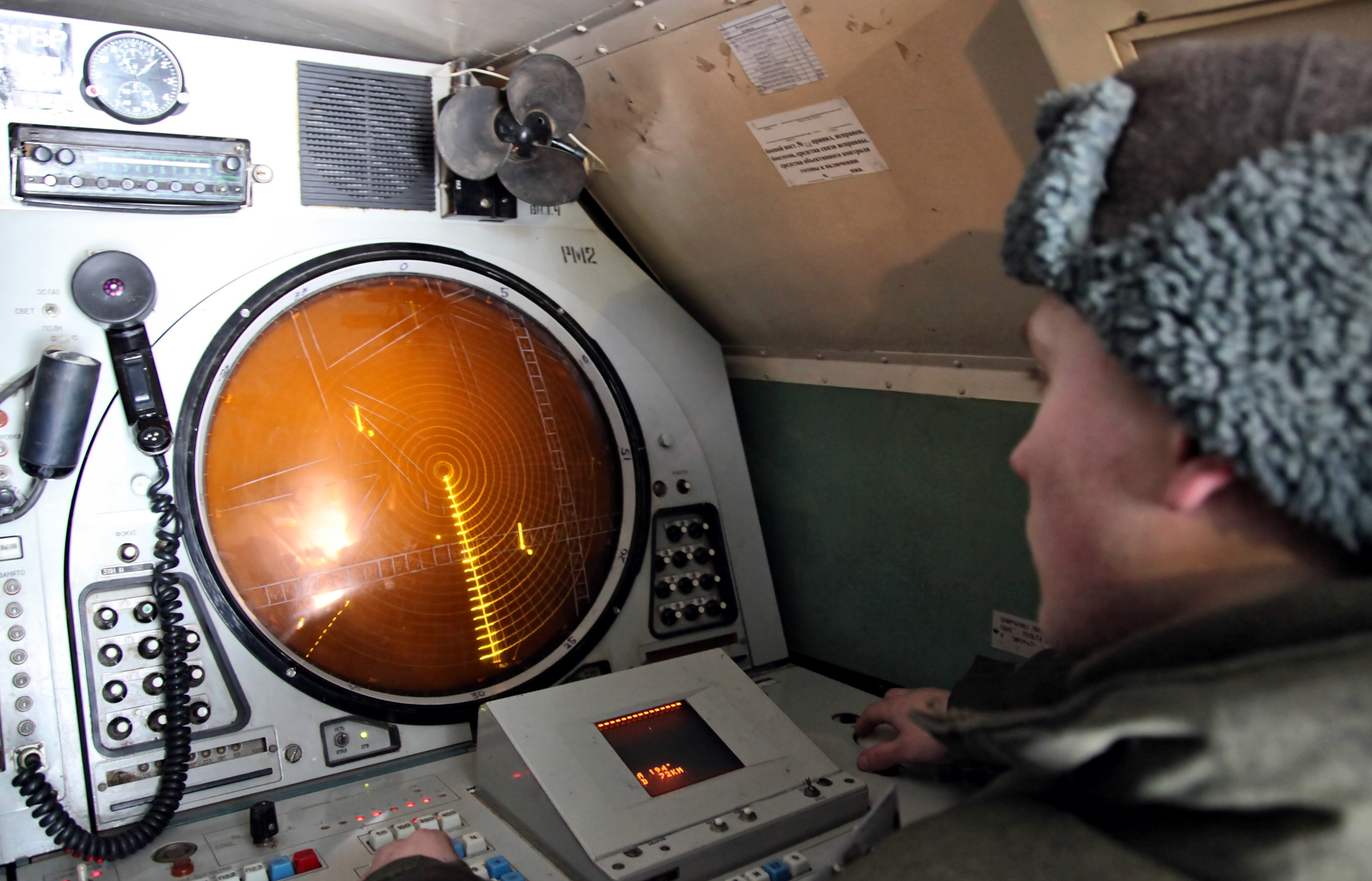 The 202nd Air Defence Brigade in the Western Military District in Russia. This air defence brigade is equipped with S-300V-SAMs. This brigade received these systems in 1989.